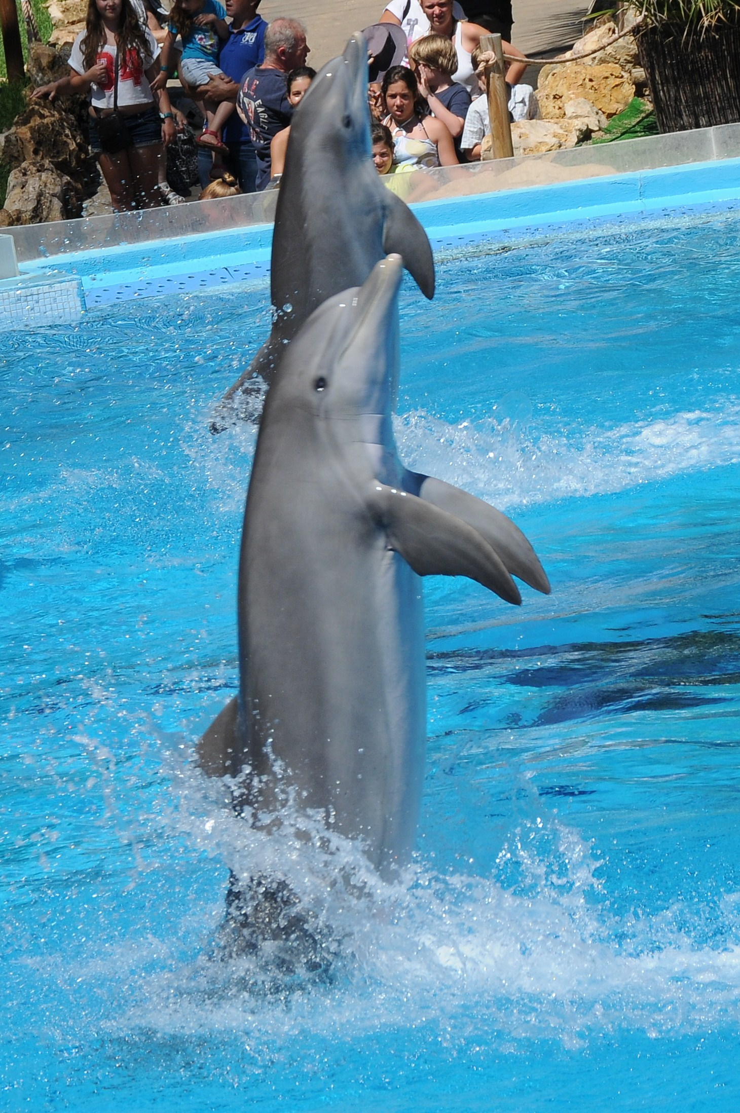 Performing dolphins at Zoomarine, Albufeira, Portugal